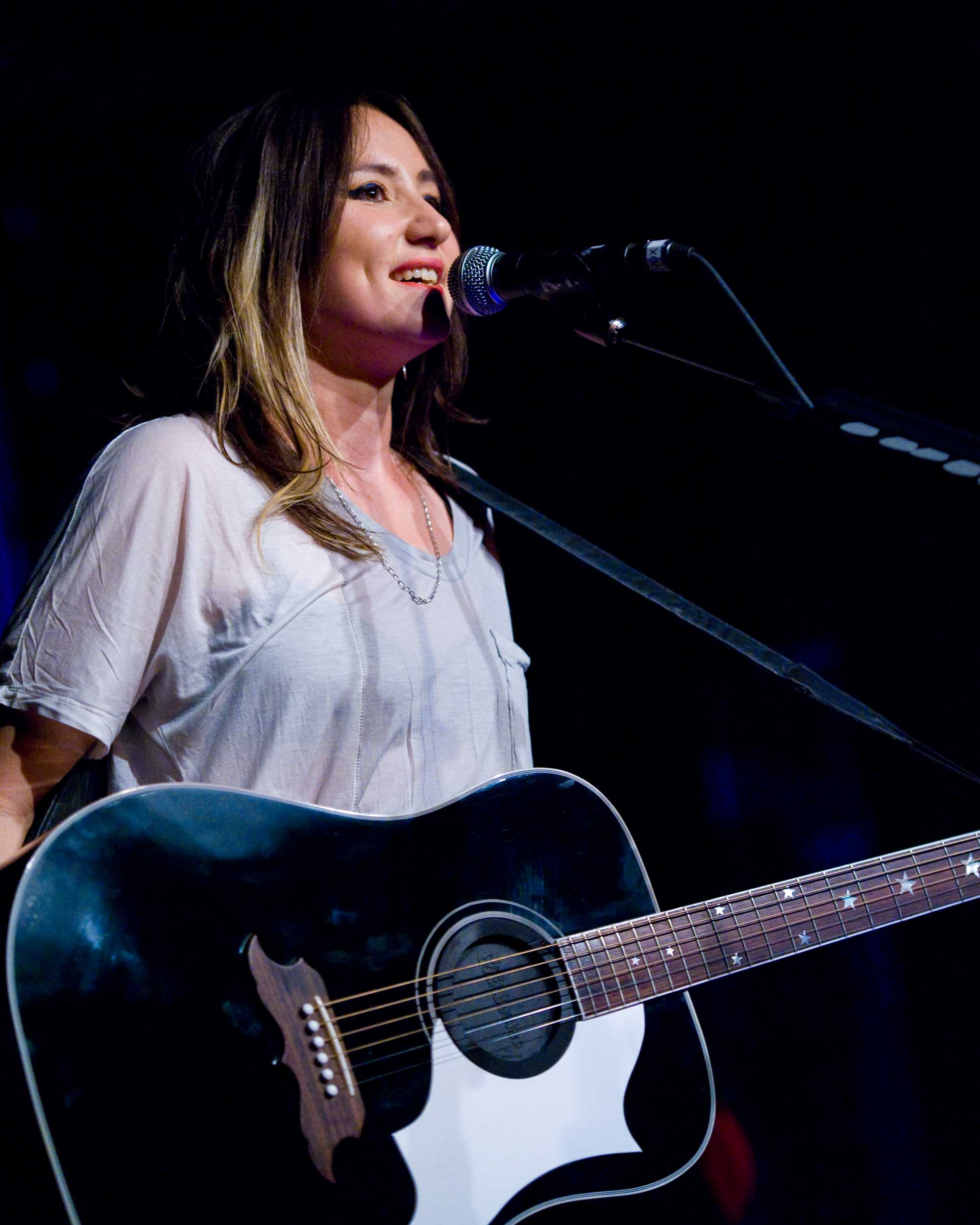 KT Tunstall performs at the Showbox SoDo in Seattle on Nov 2, 2010